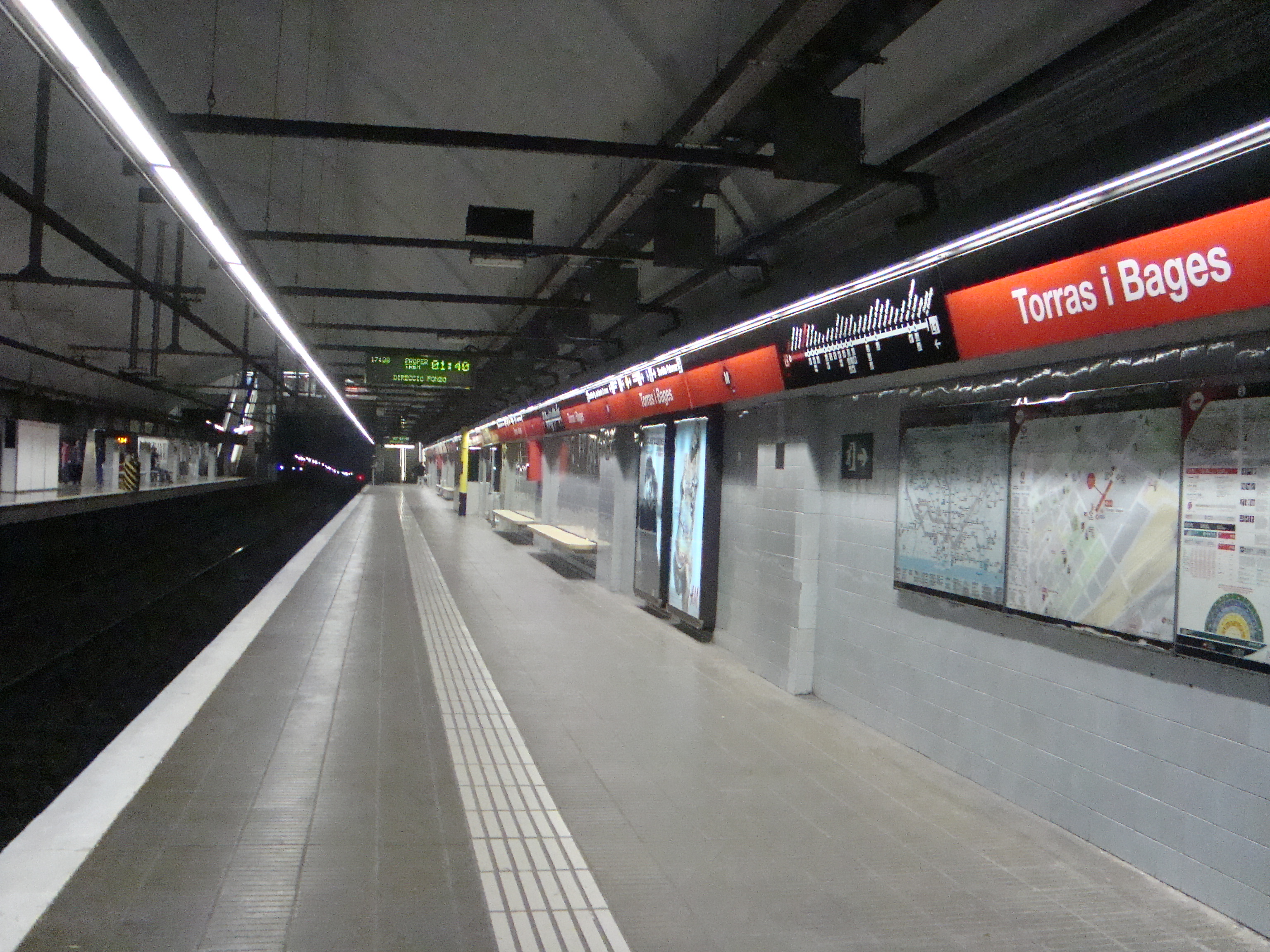 Torras i Bages Station of Barcelona underground.